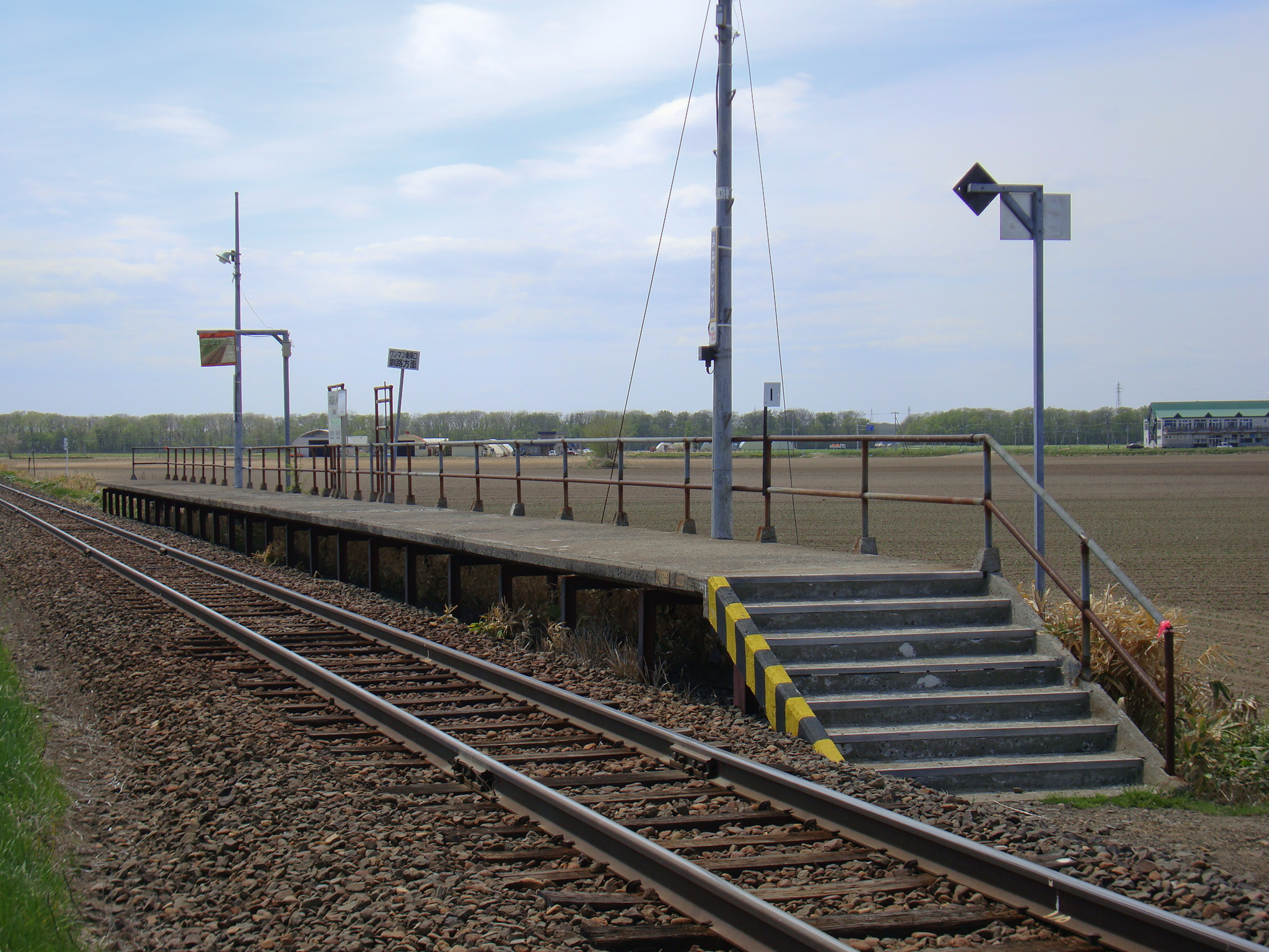 Minami-Shari Station